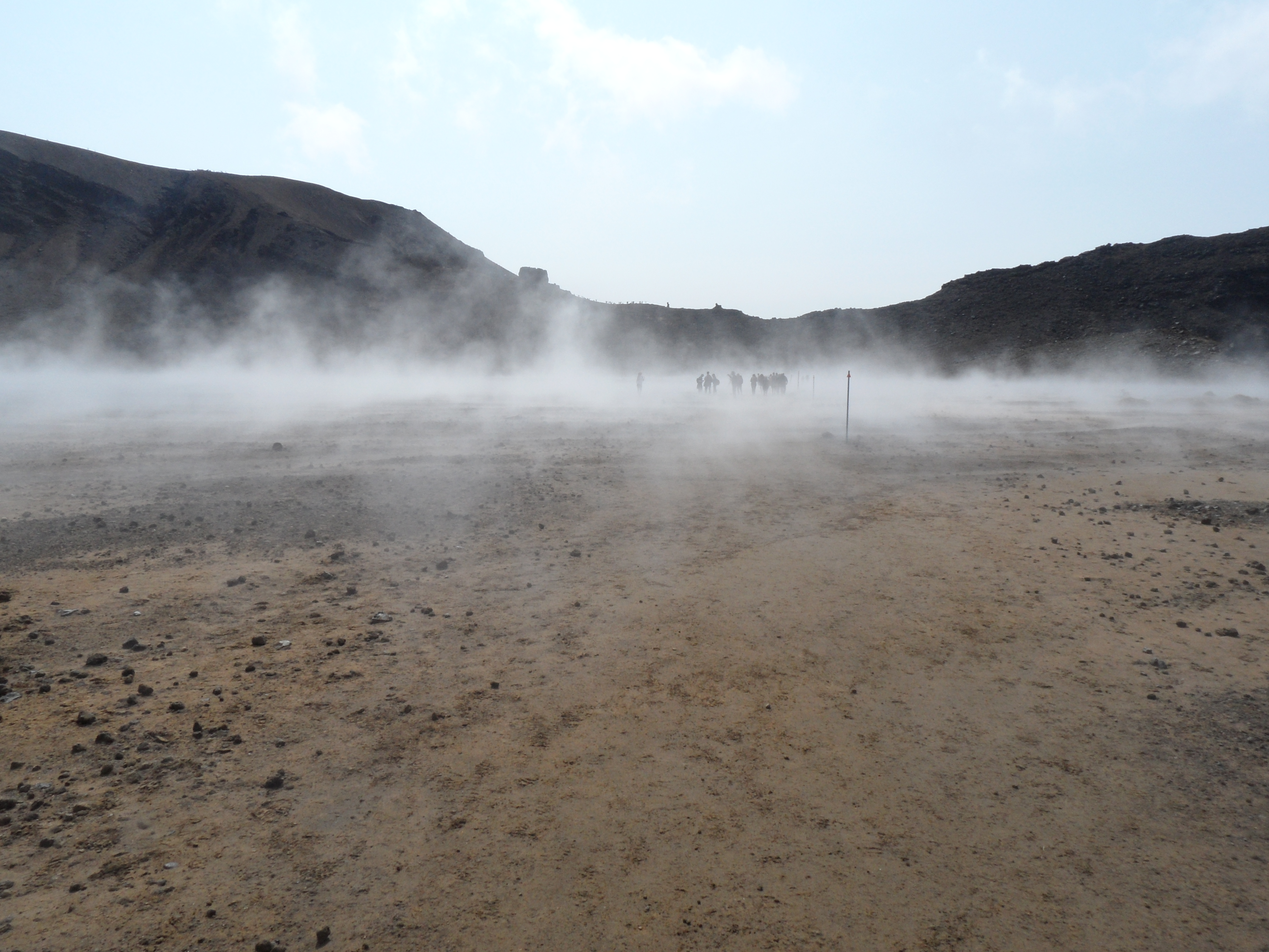 Steaming sands of South Crater on Mt Tongariro - a feature along the Tongariro Crossing track